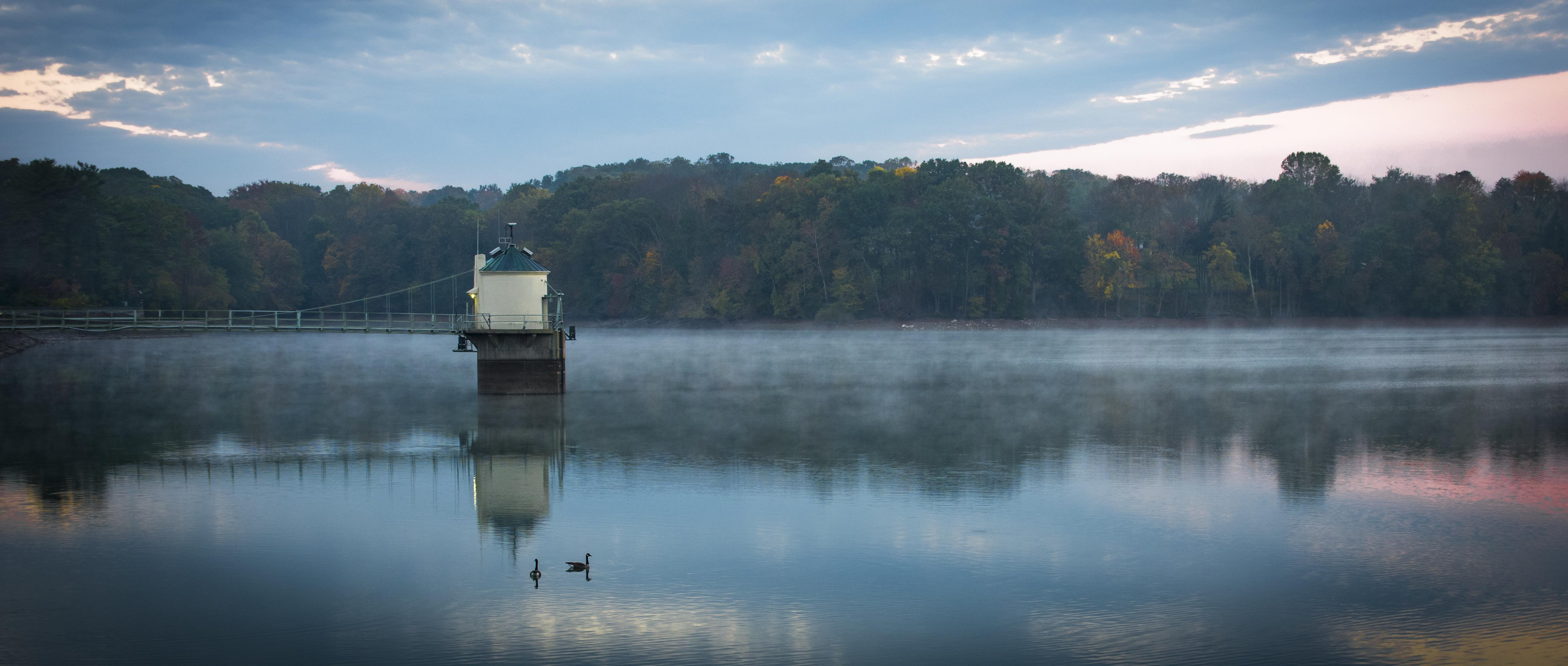 Springton Lake/Geist Reservoir, Marple Township, Pennsylvania In spite of its official name, the reservoir has always been known by the name of the farm it flooded, “Springton” the home of the Pratt family for generations. It was owned by Henry W. Stokes before being condemned by the water company. The reservoir covers 391 acres, its maximum depth of 66 feet drains an area of more than 21 square miles and has a capacity of 3.5 billion gallons.